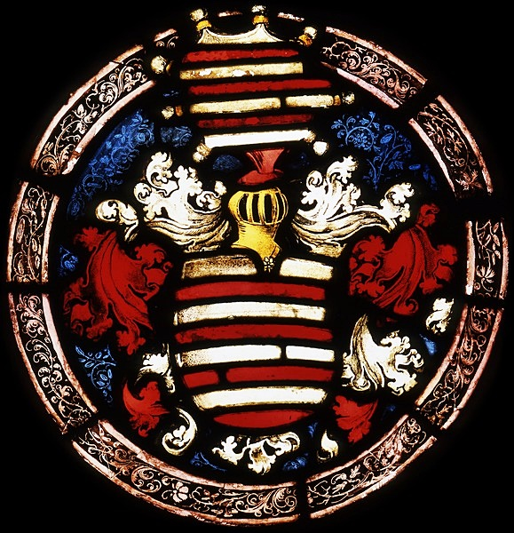 Wappenscheibe Mainzer Domkapitel im Hessischen Landesmuseum, um 1500